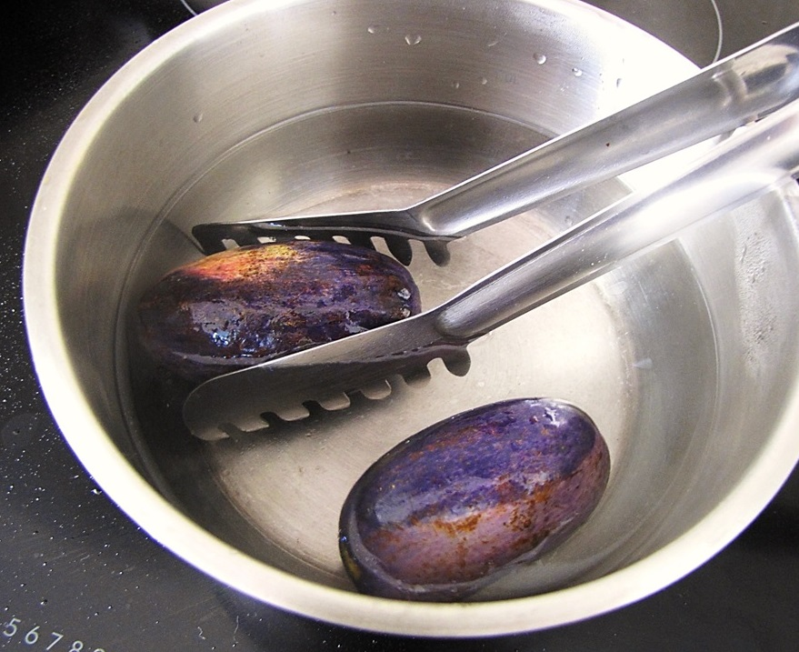 Nsafu - safoutier - butterfruit. The skin and pulp of the fresh fruit is softened by either resting in hot boiled water for a few minutes or toasting for a few minutes over heat. Here regular turning ensures an even softening of the pulp. Eaten warm. A typical serving is one or two fruits as this fruit has a reputation for causing drowsiness. Bluish skin color turns paler violet during softening in hot water.